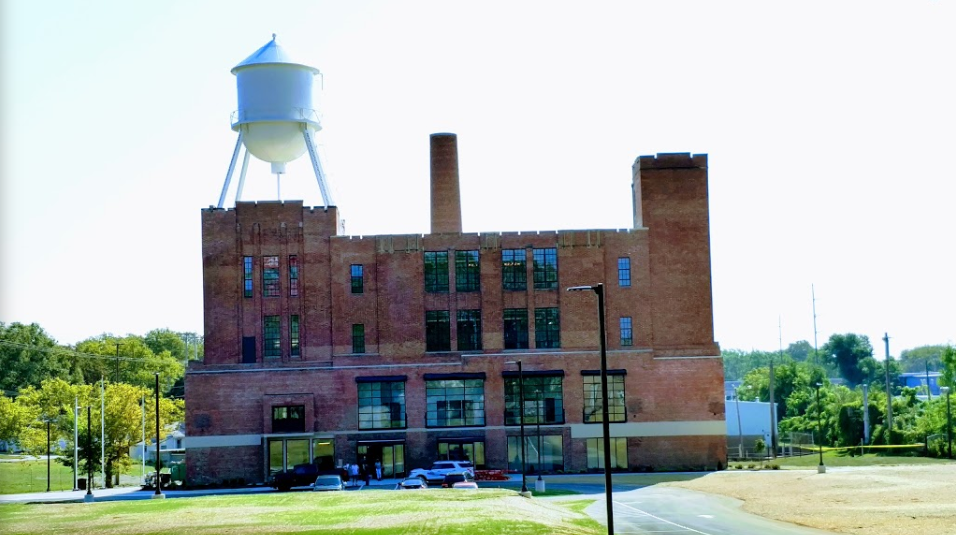 The Menlo Park Academy building was the Joseph and Feiss warehouse, that was renovated into how it is today.